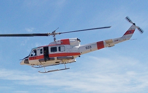 Bell212 Twin Huey (cropped and uncontroversial color correction, noise reduction) image